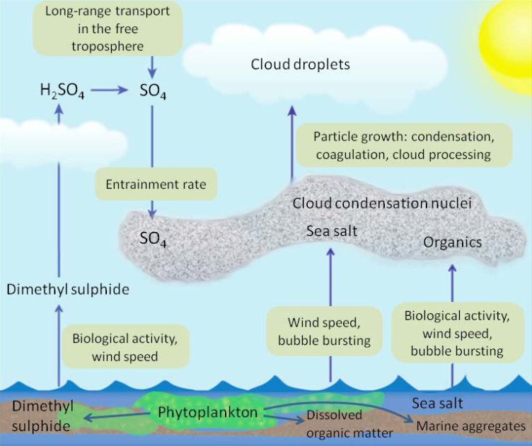 How phytoplankton blooms contribute to cloud condensation nuclei